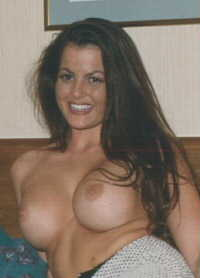 Maggie May